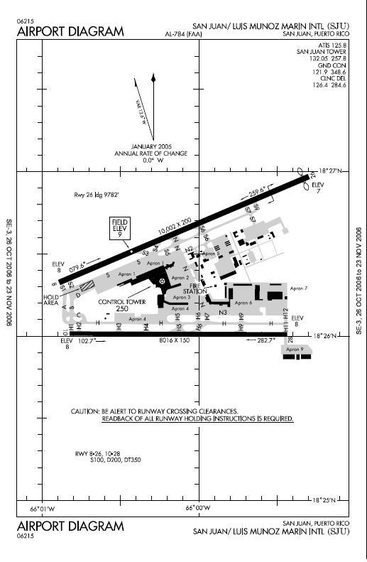 FAA Airport Diagram(link at bottom of the page) category:Luis Muñoz Marín International Airport category:Federal Aviation Administration category:Maps